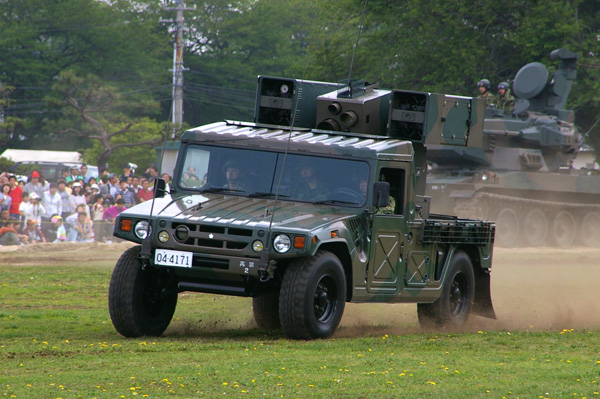 Taken by Los688,29-Apr-2008,JGSDF Camp-Shimoshizu.JGSDF Type 93 Surface-to-air missile,Air Defence Artillery School unit. ja:2008年4月29日、投稿者撮影。陸上自衛隊下志津駐屯地記念行事。93式近距離地対空誘導弾、高射教導隊。